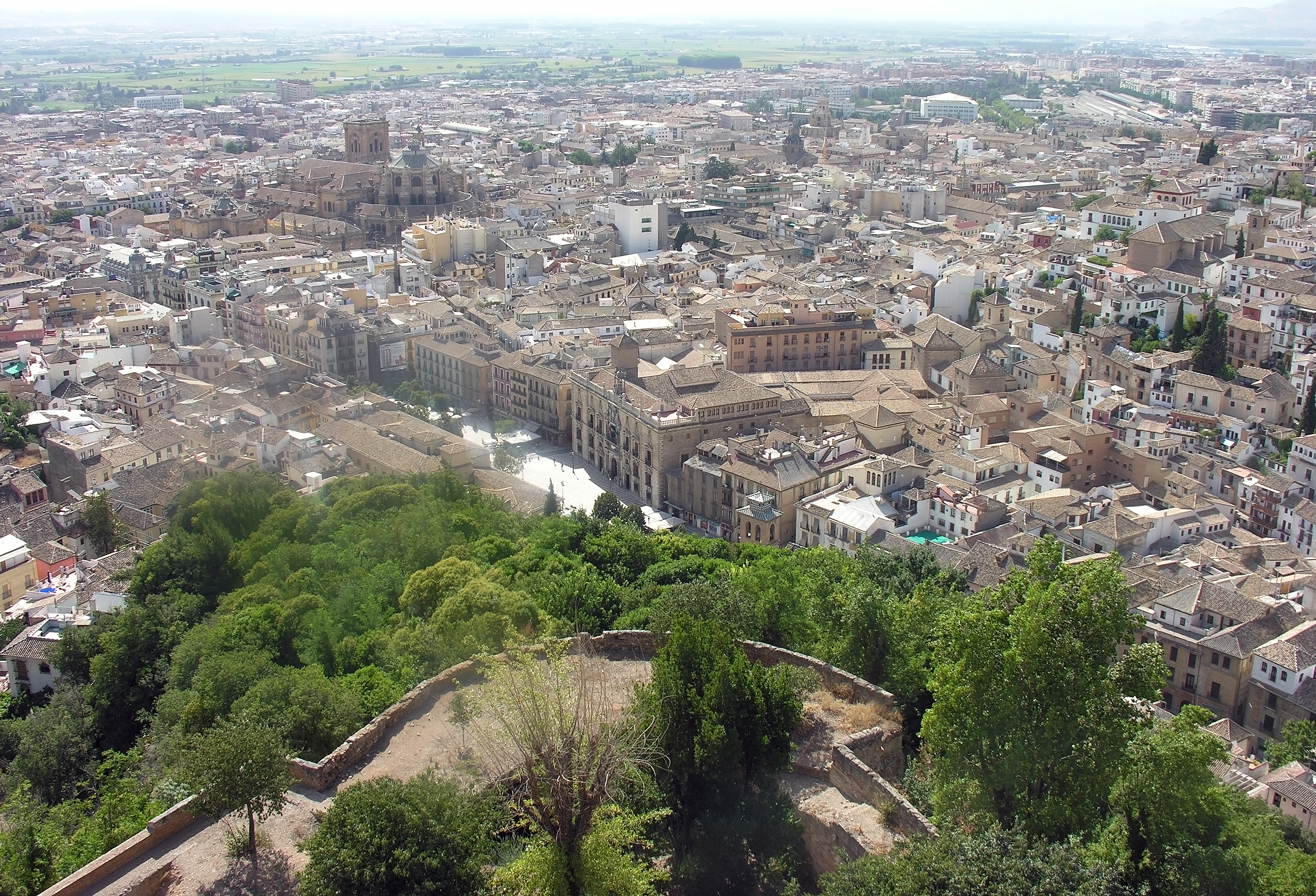 View of Granada from Alhambra, Spain